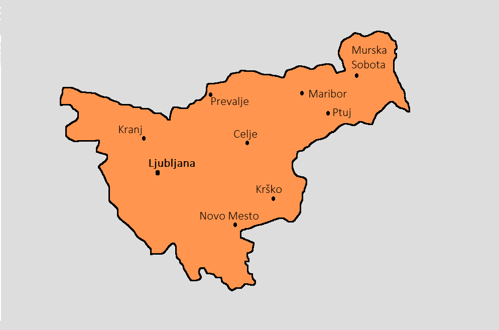 Map of the Drava Banovina with the biggest towns and cities including the capital, Ljubljana.